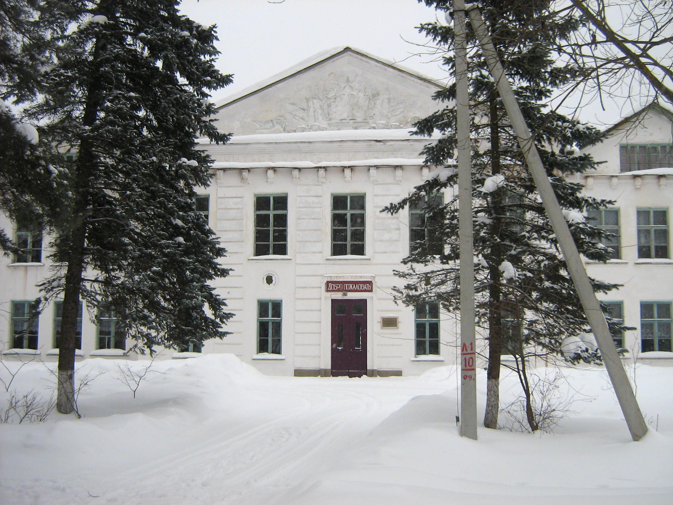 The school in Novoselsky village, Starorusky district, Novgorod oblast, Russia